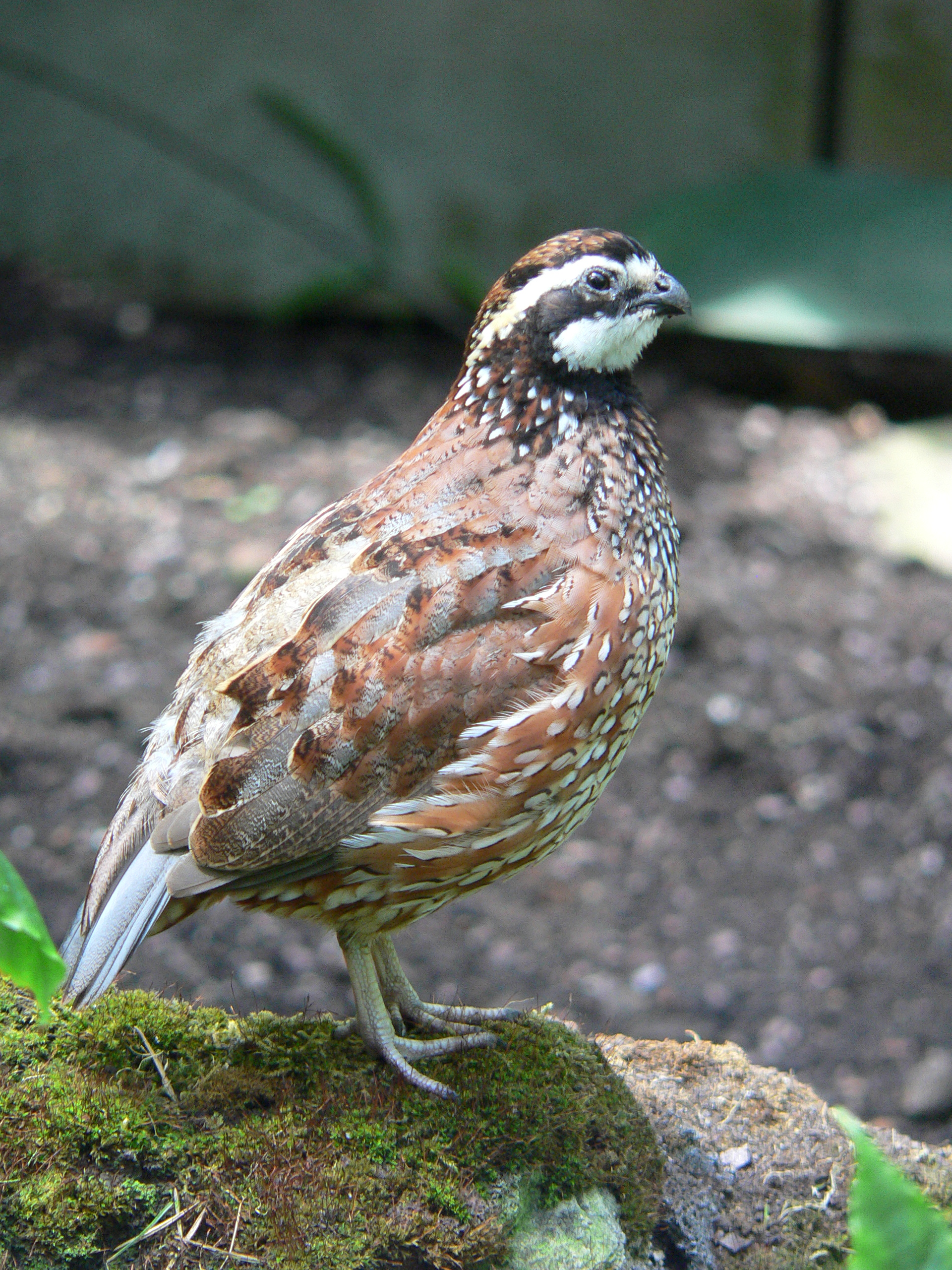 Virginiawachtel